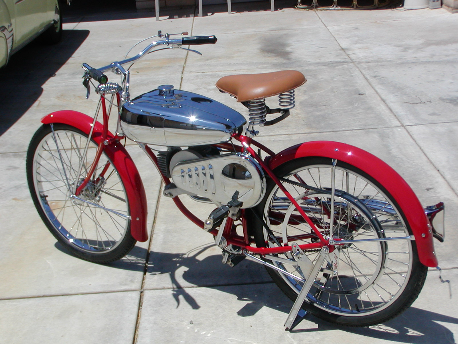 Picture of rare Marman motorized bicycle.